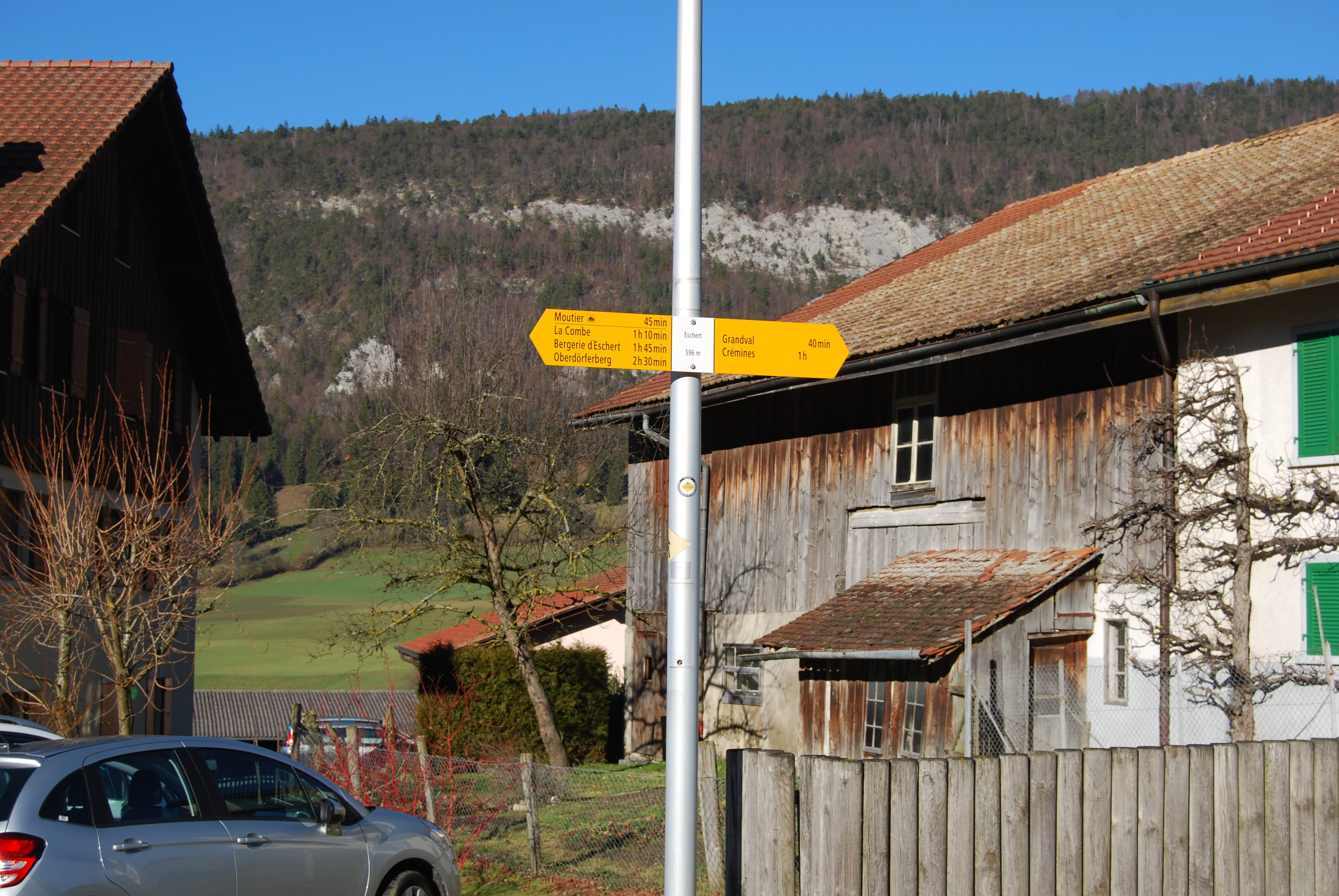 Eschert, canton of Bern, Switzerland